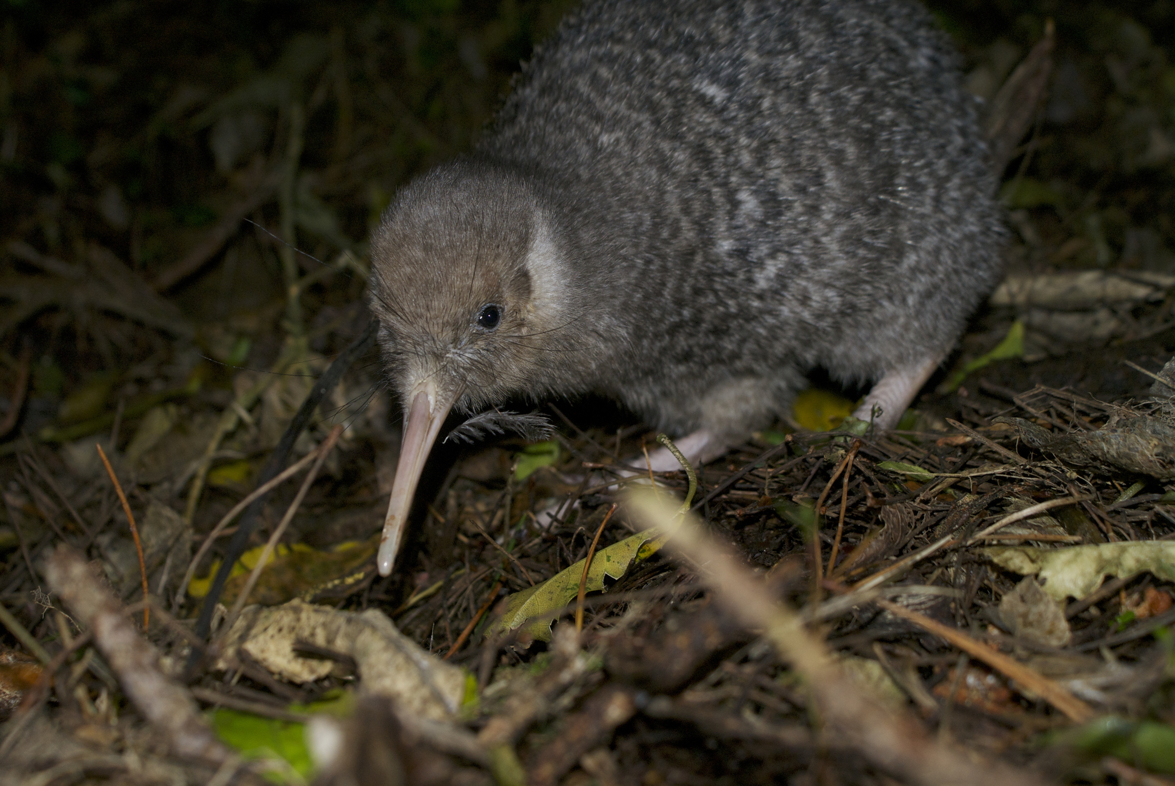 Juvenile little-spotted kiwi (Apteryx owenii) at Zealandia Ecosanctuary